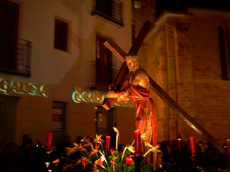 Holy Week in Ávila, Spain